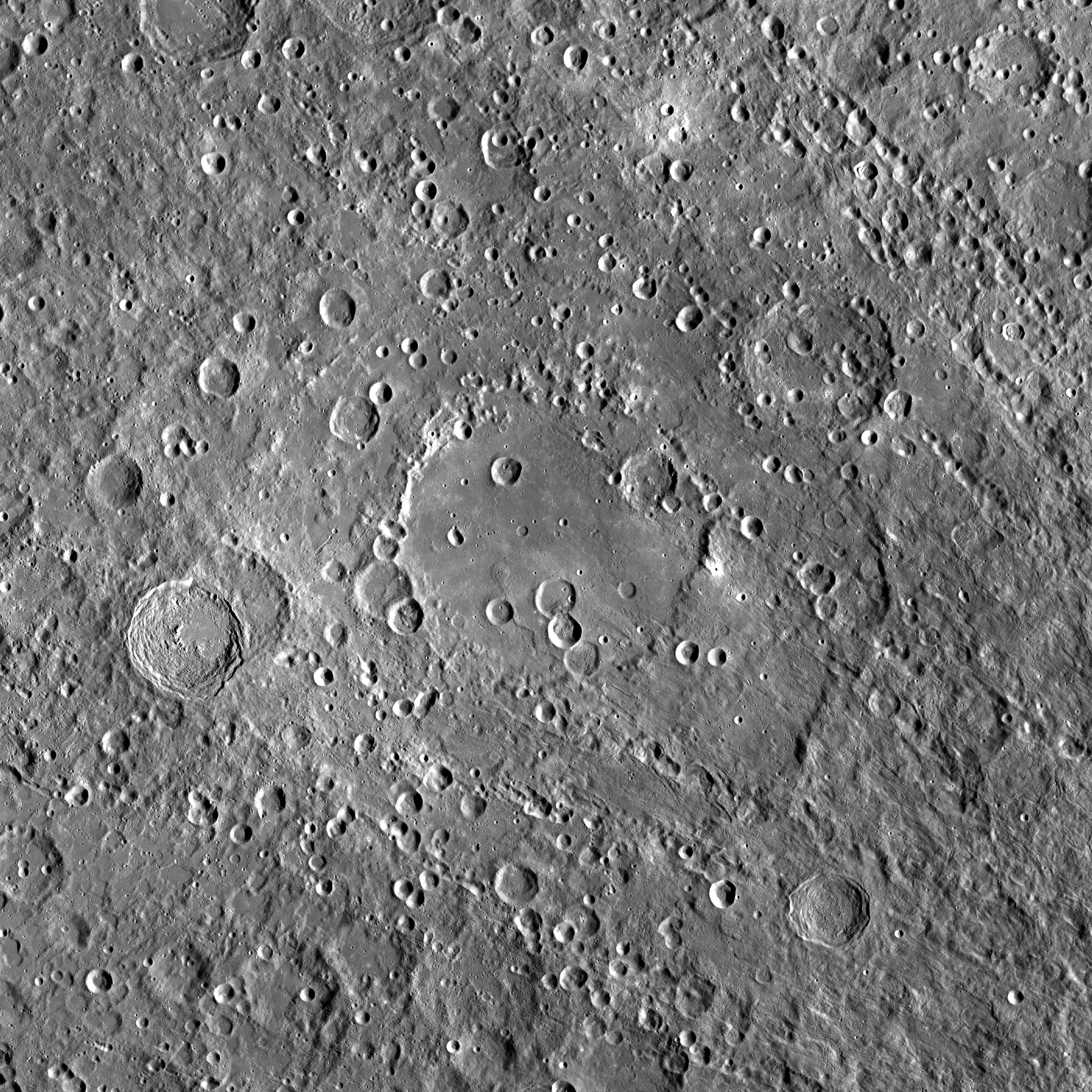 Crater Hertzsprung (diam. 570 km) on the Moon, in Mare Smythii. Coordinates of center of the crater are 1.3°N, 128.7°W. Mosaic of photos by Lunar Reconnaissance Orbiter, made with Wide Angle Camera. Width of the image is 900 km, north is up. The image has the same borders and resolution as a topographic map Hertzsprung (GLD100).jpg.